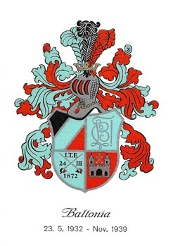 Coat of arms of student fraternity Baltoni in Tartu/Dorpat.